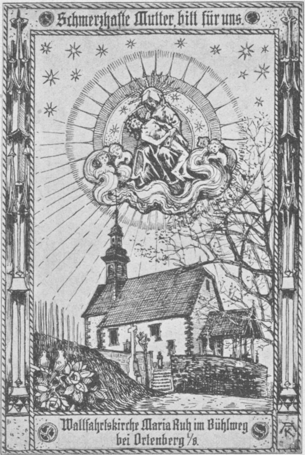 Drawing showing the Bühlwegkapelle in Ortenberg, Baden-Württemberg, as of 1909